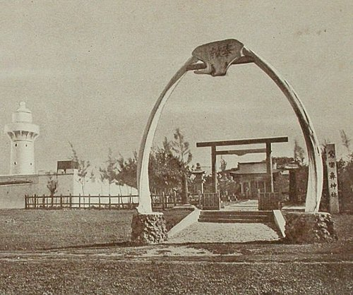 Garanpi Shrine